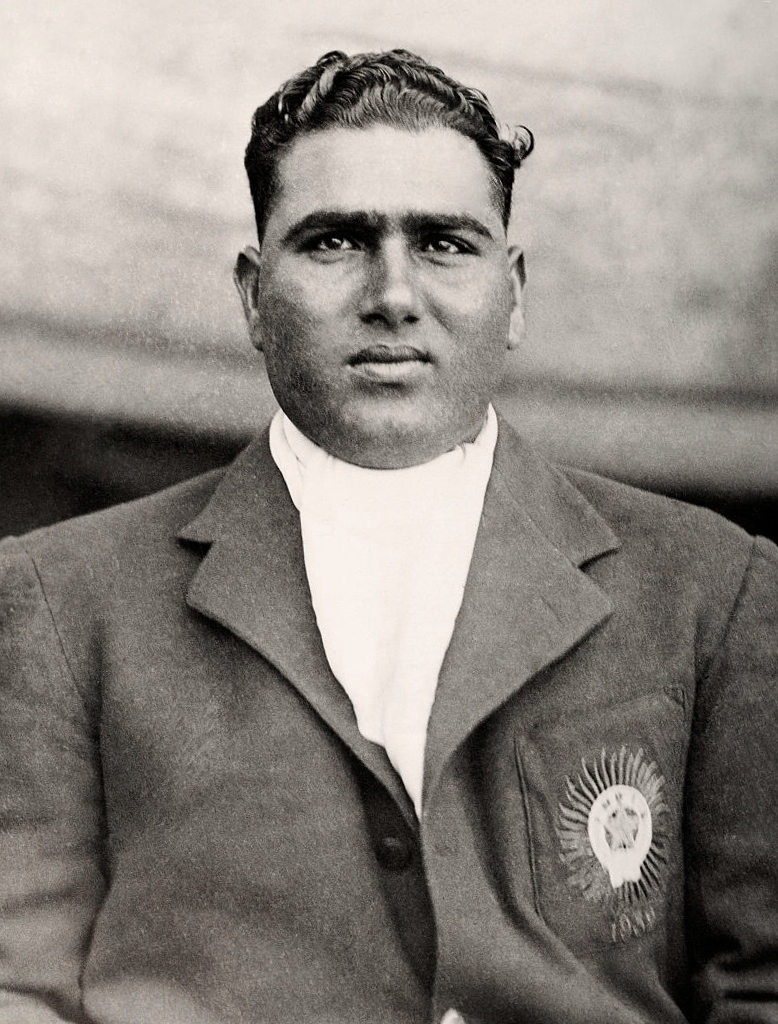 Mohammad Nissar, a member of the cricket team representing All India for their tour of England in 1932.